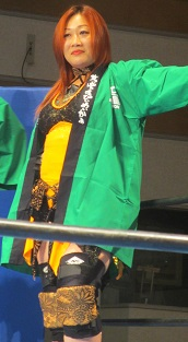 Japanese professional wrestler, Kayoko Haruyama. Sep 23 2015, Ice Ribbon Yokohama Radiant Hall.